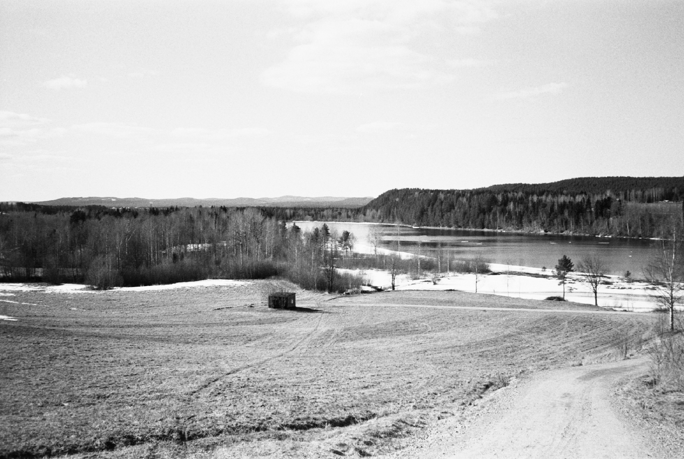 Black and white photography of the swedish river Ljusnan. Taken at springtime from the nearby village of Färila ..